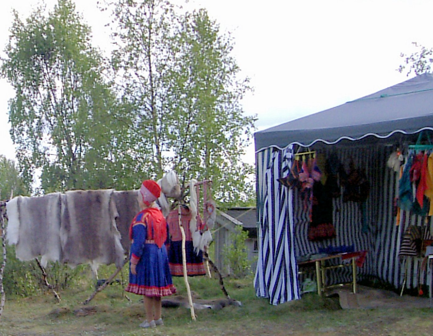 Sámis traditional costume in Kautokeino, Norway